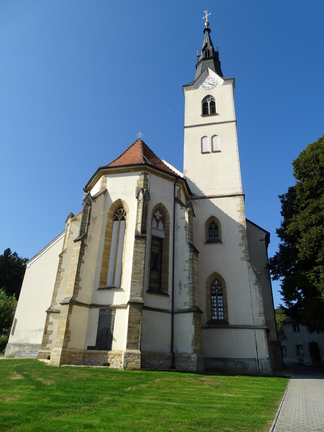 Church of St. John the Baptist